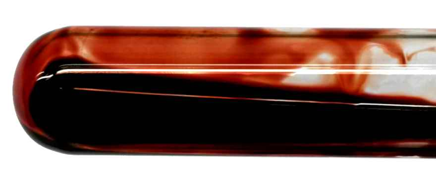 Ill-defined aqueous mix of hydrated octahedral iron(III) thiocyanate complexes primarily consisting of: [Fe(SCN)3(H2O)3] [Fe(SCN)2(H2O)4]+ [Fe(SCN)(H2O)5]2+ Obtained from a test for iron: a reaction between NH4SCN and iron(III) ions in dilute HCl medium. Source for claims: MW Lister, DE Rivington (1955). "Some measurements on the iron(III)-thiocyanate system in aqueous solution". Canadian Journal of Chemistry. 33 (10): 1572-1590.